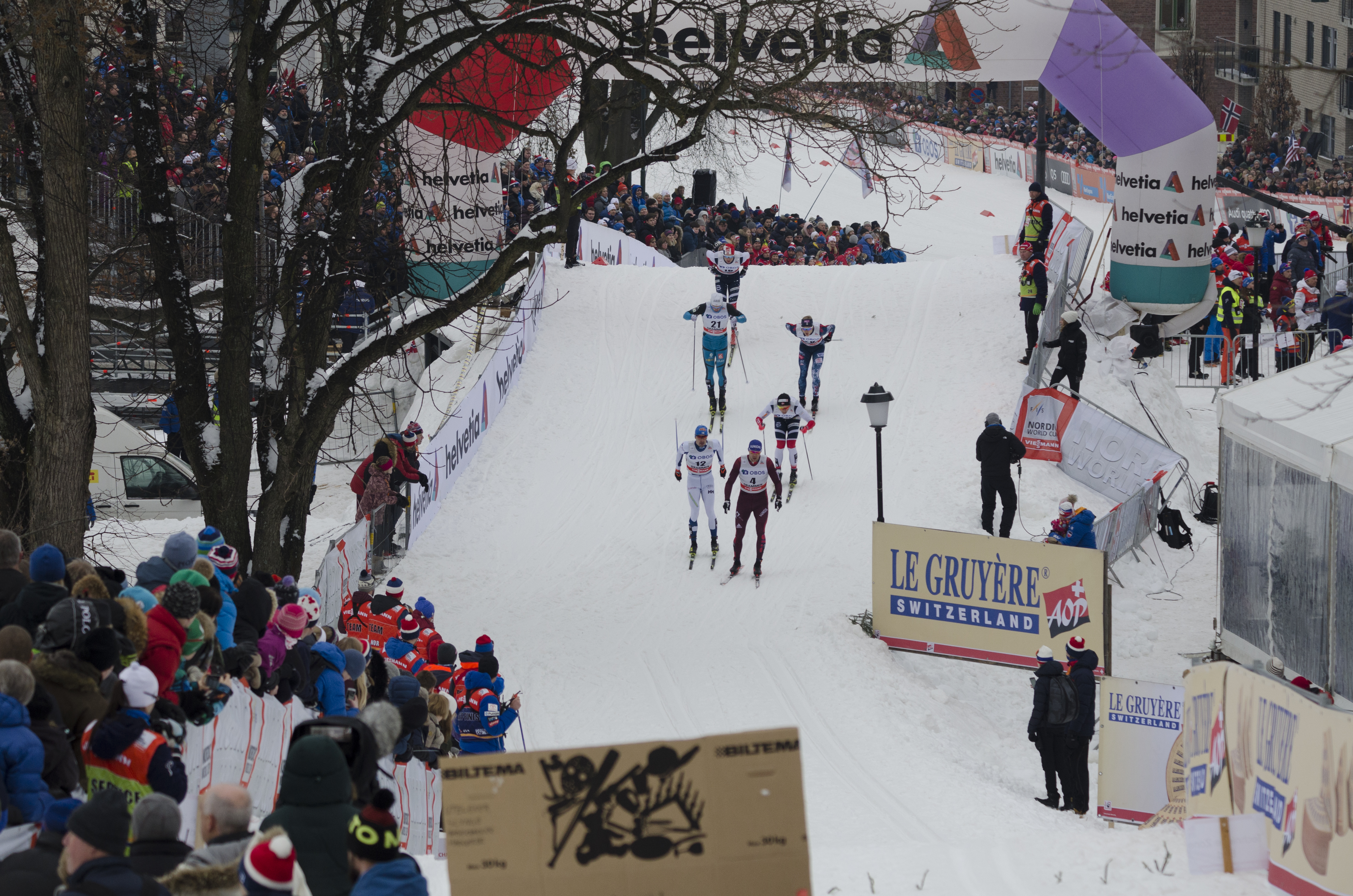 Skiers at the Drammen ski sprint in 2018. In front Ristomatti Hakola (left) and Alexander Panzhinskiy (right).